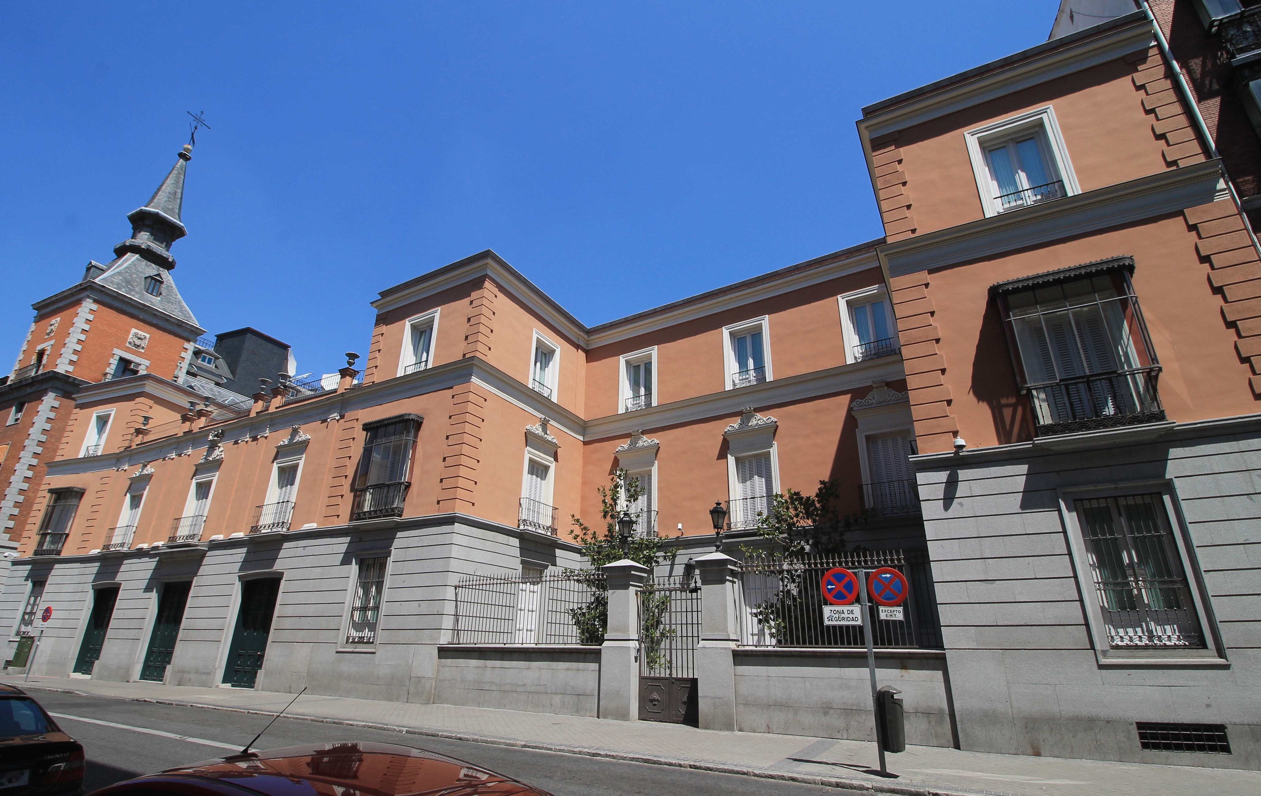 West façade of Viana Palace in Madrid (Spain).